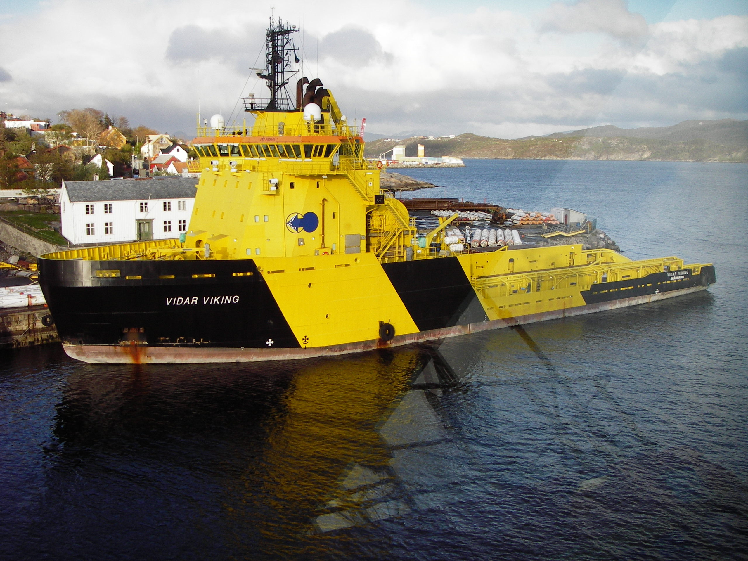 Taken from the Balder Viking in Kristiansund, Norway, May 2005. Marcus Bengtsson